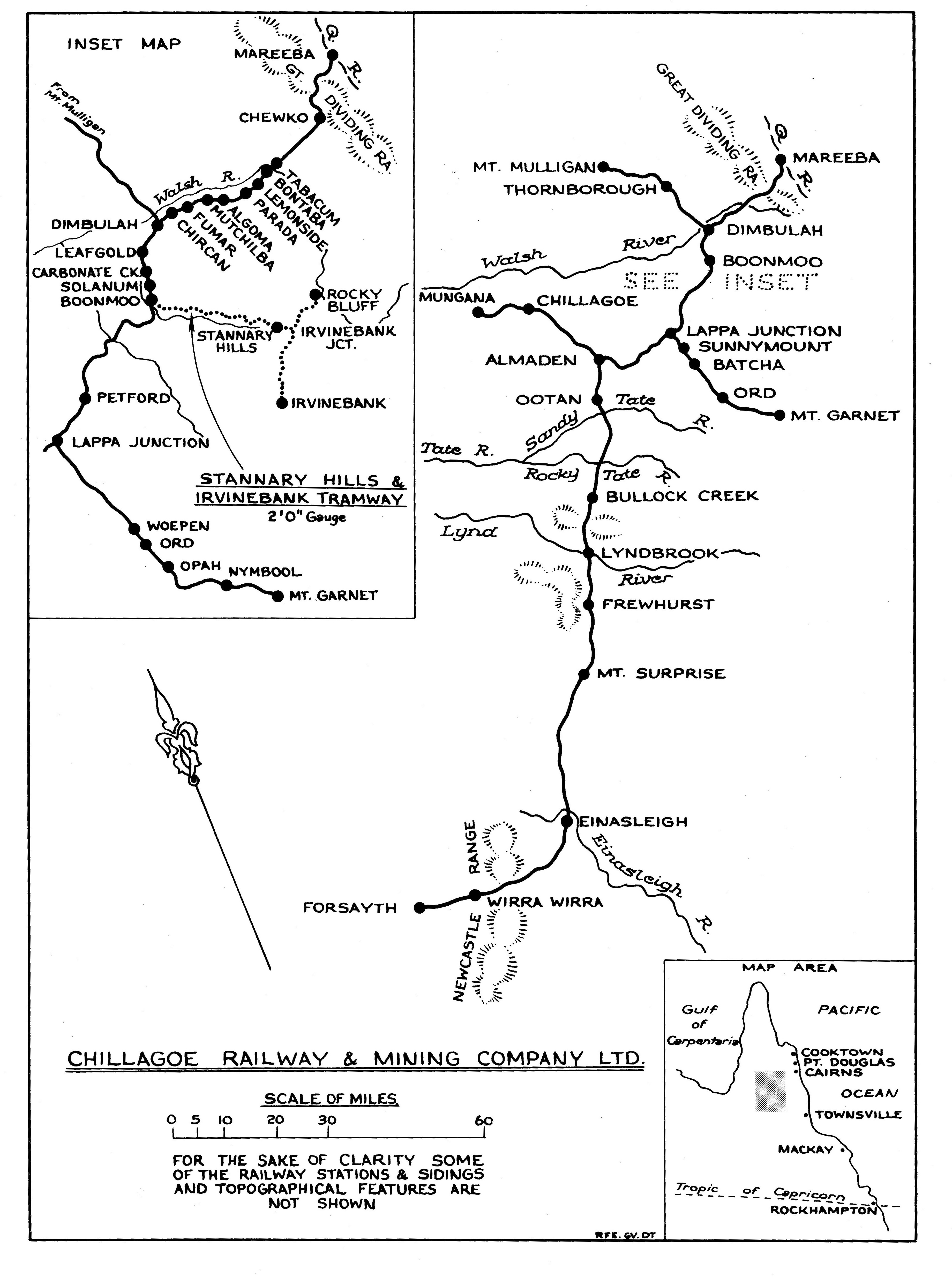 Chillagoe Railway and Mining Co. railway map from 1898 to 1960. Showing from Mareeba where the Queensland Government Railways finished and the then private railway of Chillagoe Railway and Mining Co. started